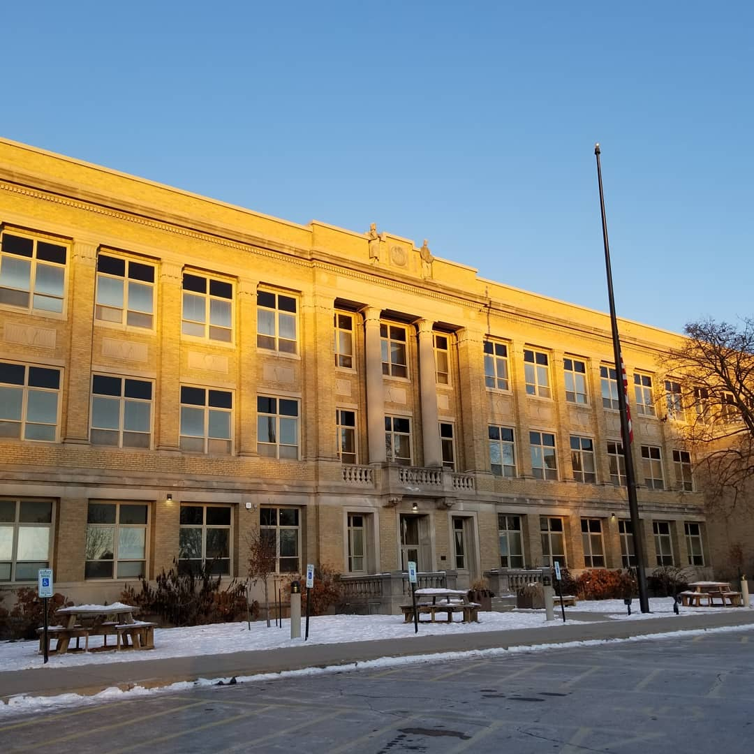 The front facade of Green Bay East High School, photo taken December 2019.